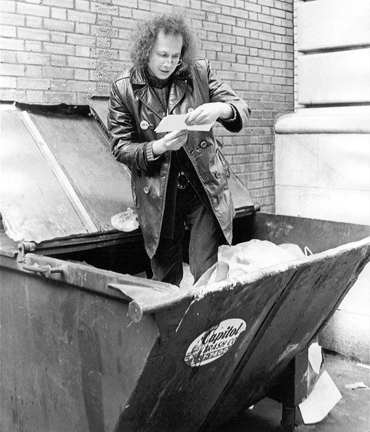 A J Weberman, a journalist in the underground and alternative press, sifts through a dumpster for information.